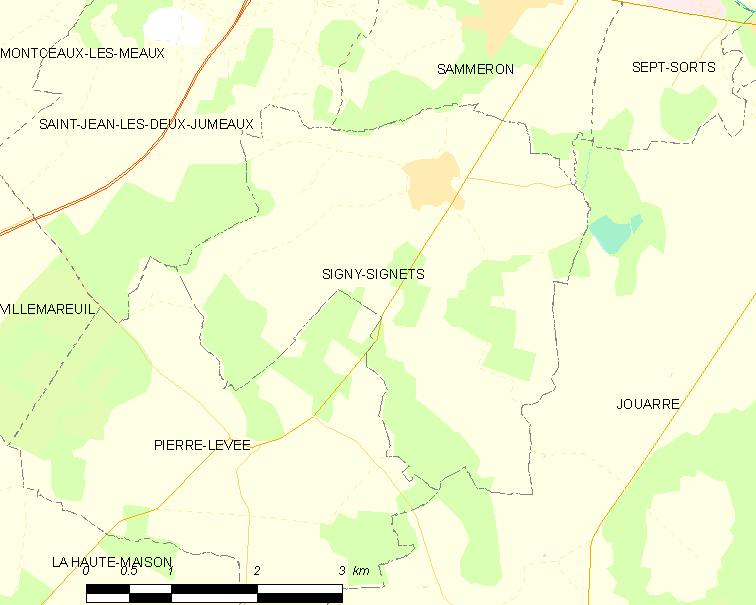 Map of French municipality Signy-Signets